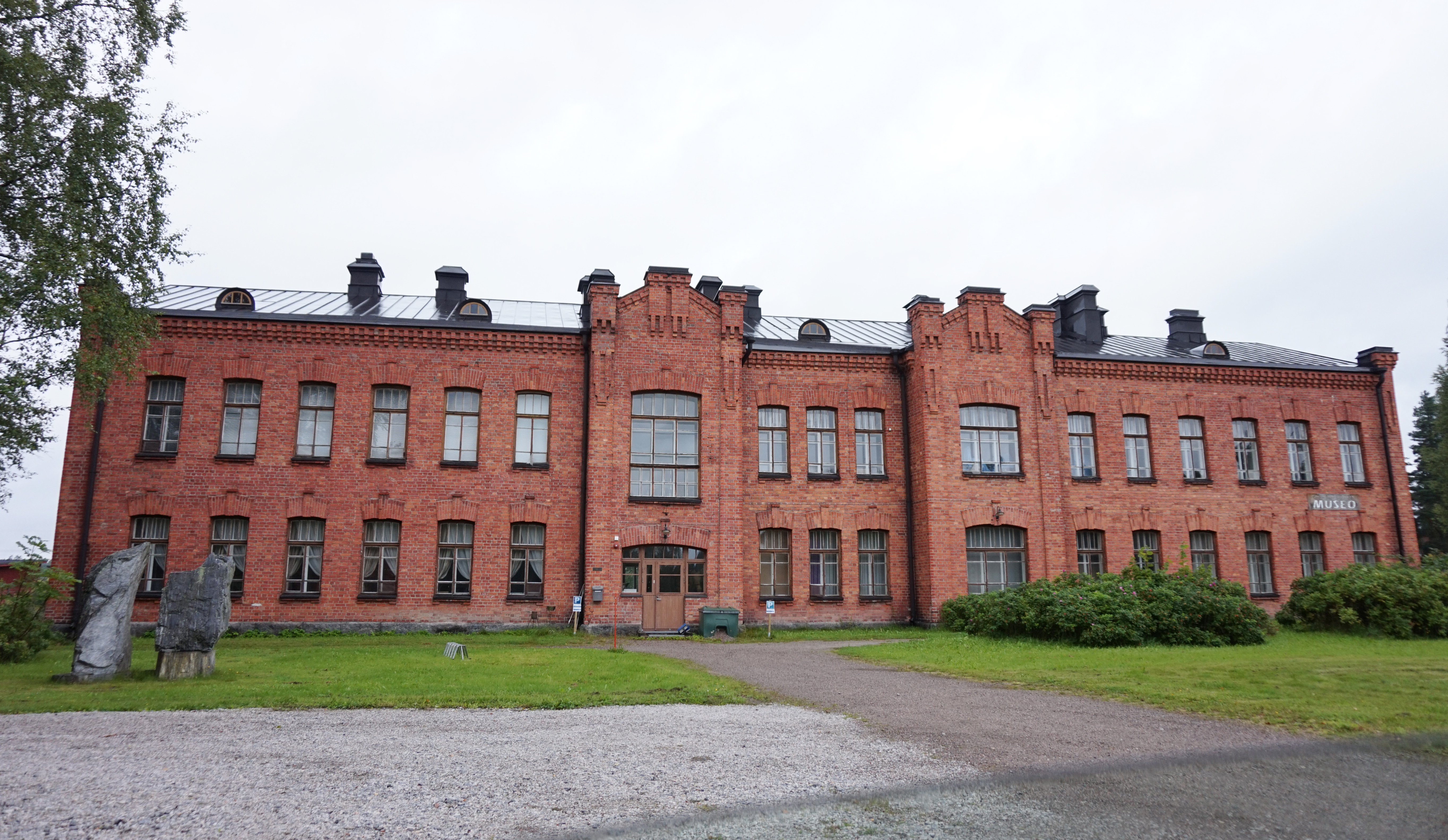 Military Medicine Museum in Lahti. (The building number 54 of the Hennala garrison.)